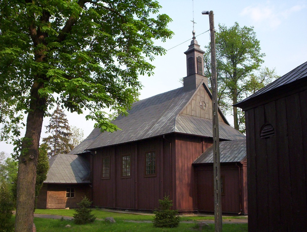 Church in Żuków, Poland.